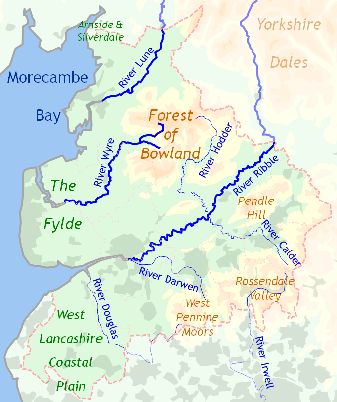 Topography of Lancashire, England